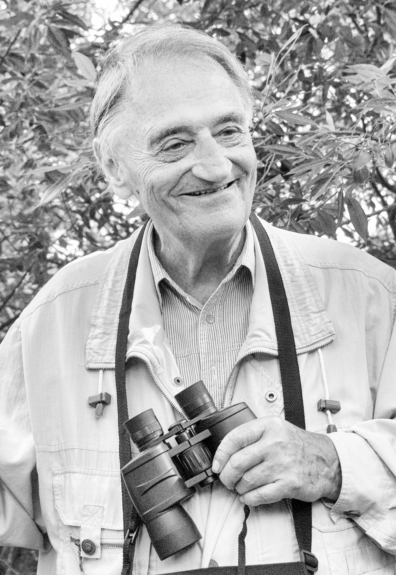 Portrait of the czech medical doctor, professor and scout Jan Pfeiffer on a hike in 2008 with binoculars